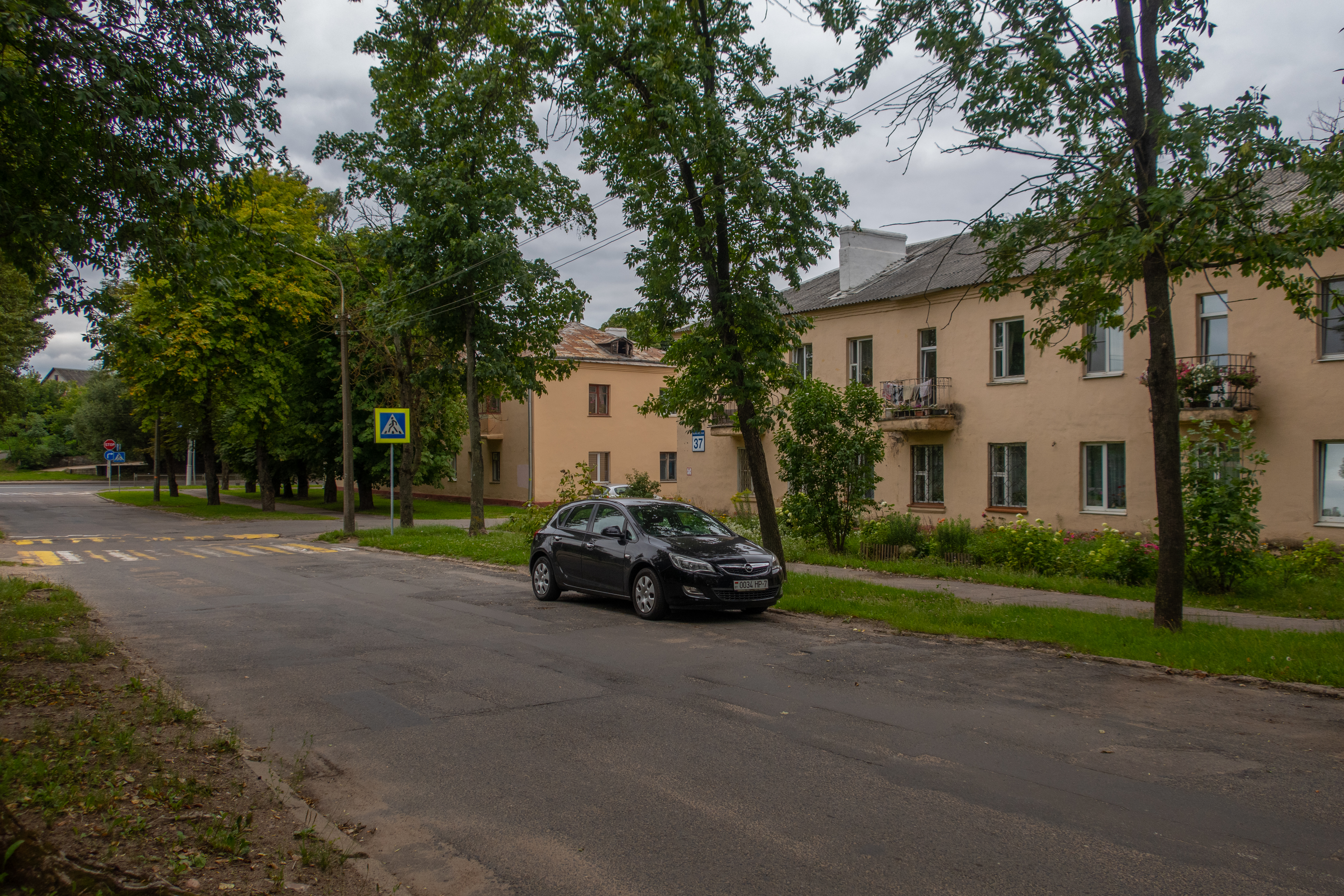 Avanhardnaja Street. Minsk, Belarus